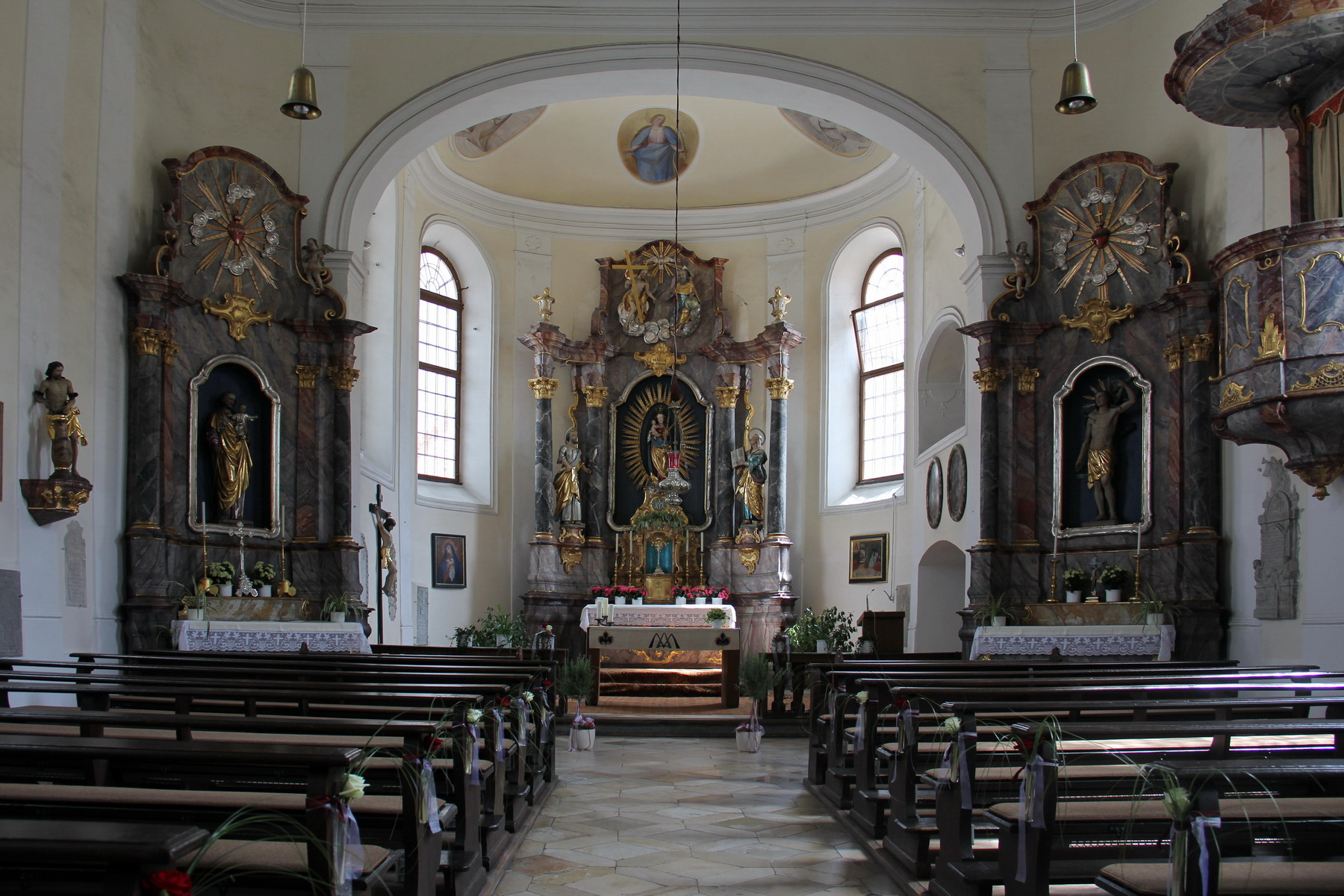 Saint Mary Native nameFrauenkircheLocationBeilngries, Upper Bavaria, GermanyCoordinates49° 02′ 10.5″ N, 11° 28′ 16.68″ E Authority control : Q19997793 institution QS:P195,Q19997793